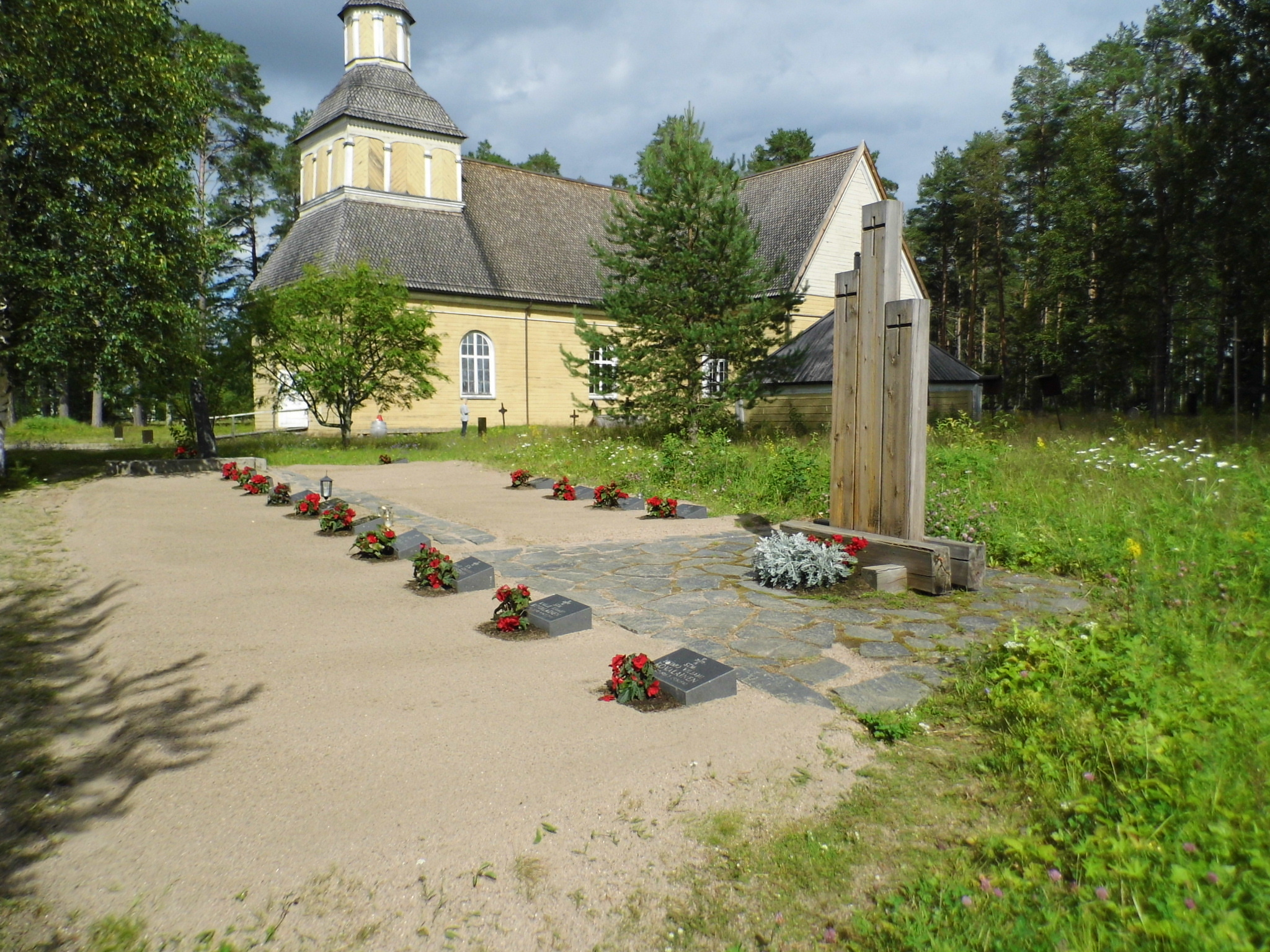 Military cemetary at church in Paltaniemi, Kajaani, Finland